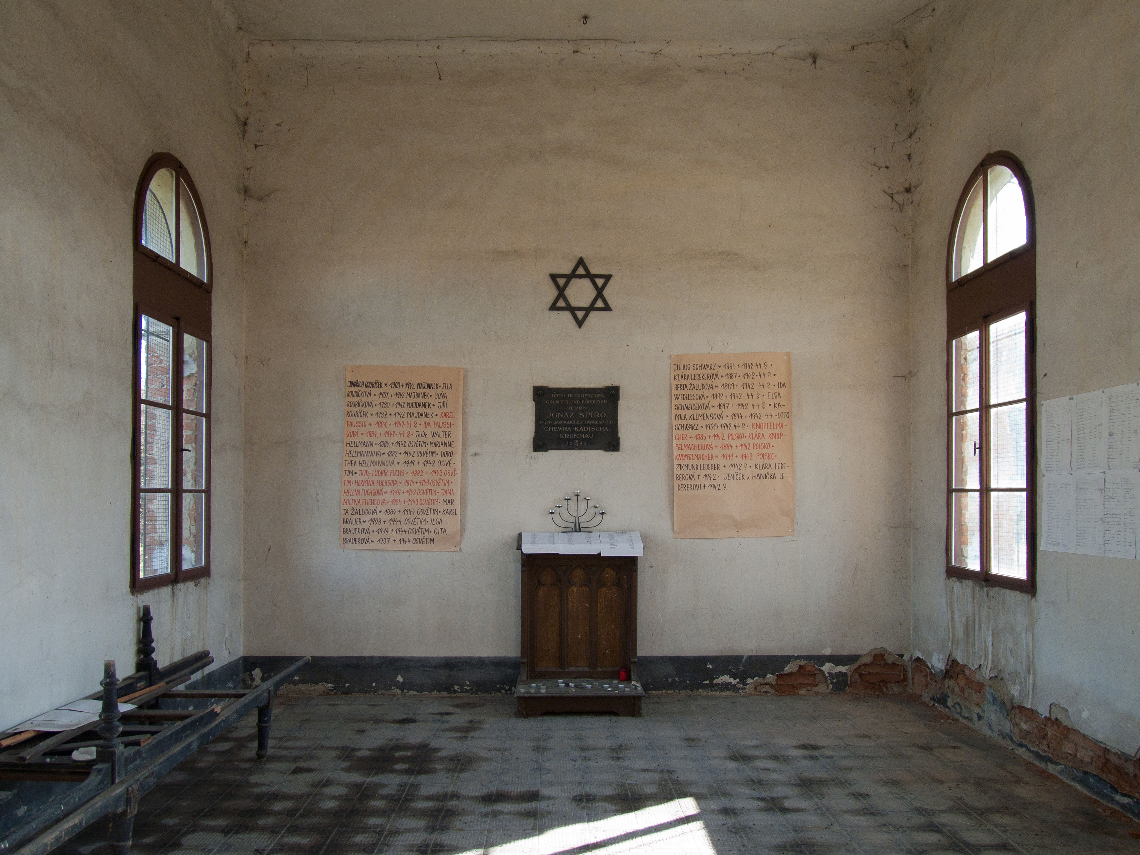 Interior of the ceremonial hall in the Jewish cemetery in the town of Český Krumlov, South Bohemian Region, Czech Republic